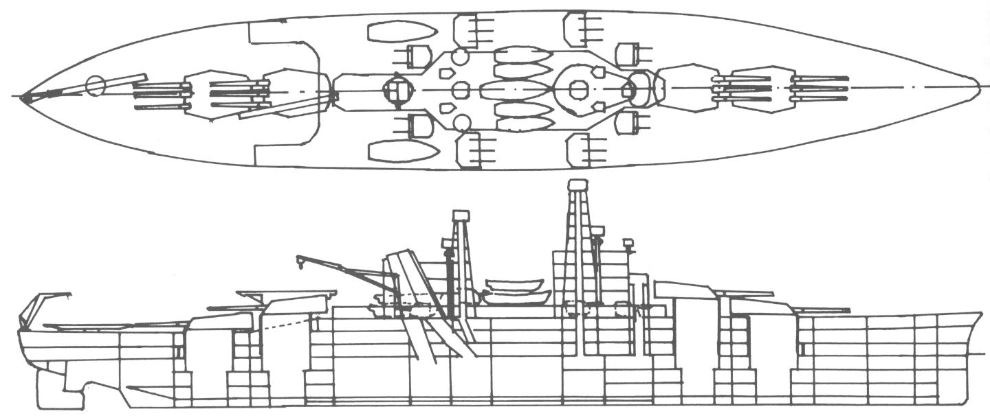 "Scheme VII, a slow battleship: 640 feet, 22 knots, twelve 14in/50 guns, protected against 14-inch fire between 21,400 and 30,000 yards." Friedman, Norman (1985). U.S. Battleships: An Illustrated Design History. Annapolis, Maryland: Naval Institute Press. p. 258. ISBN 0870217151. OCLC 12214729.